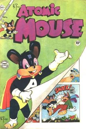 Cover to issue #6 of Atomic Mouse, drawn by Al Fago (Charlton Comics, March 1954)